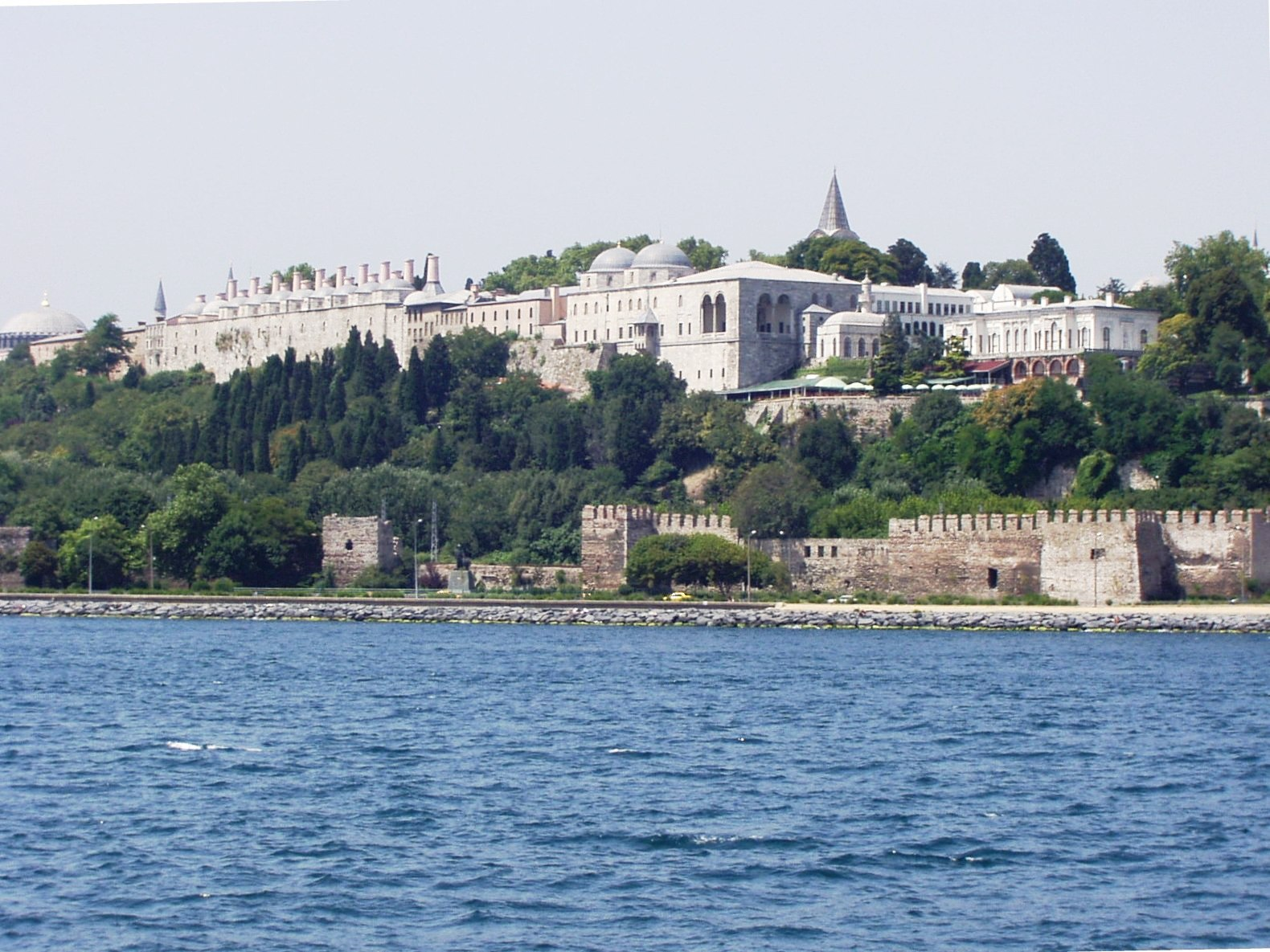 View of Topkapı Palace from the Bosphorus.